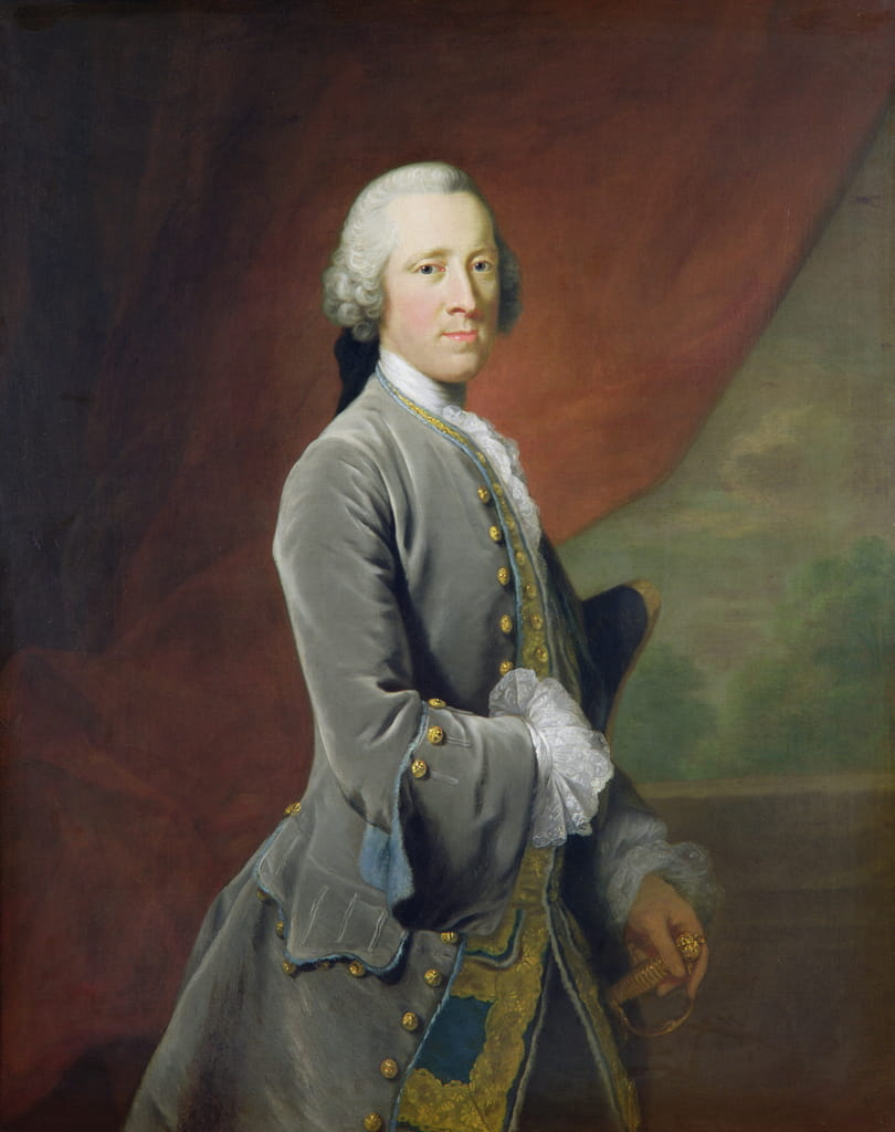 William Cavendish, 4th Duke of Devonshire (c.1720-1764). 画像:4th duke devon.JPG